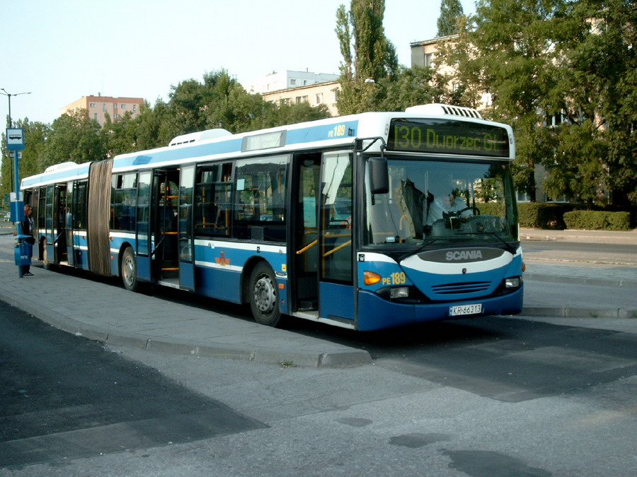 Scania CN94UA OmniCity bus (#PE189) in Kraków (Azory), Poland. Year built 2001, MPK Kraków company. Made by Scania Production Słupsk.